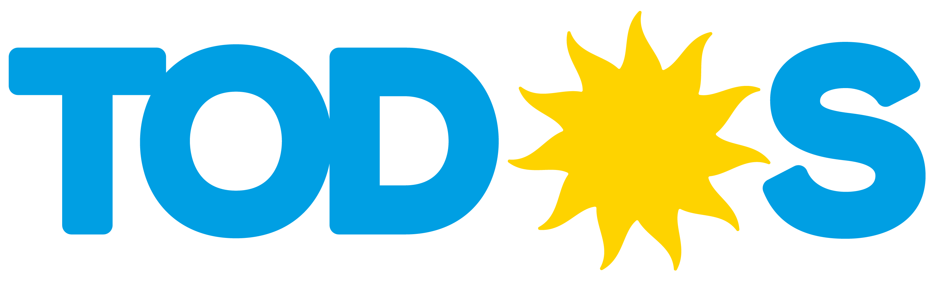 Frente Todes